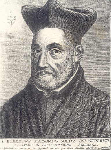 Father Robert Persons, English Jesuit, founder of the English colleges of Valladolid, Sevilla and Saint-Omer.